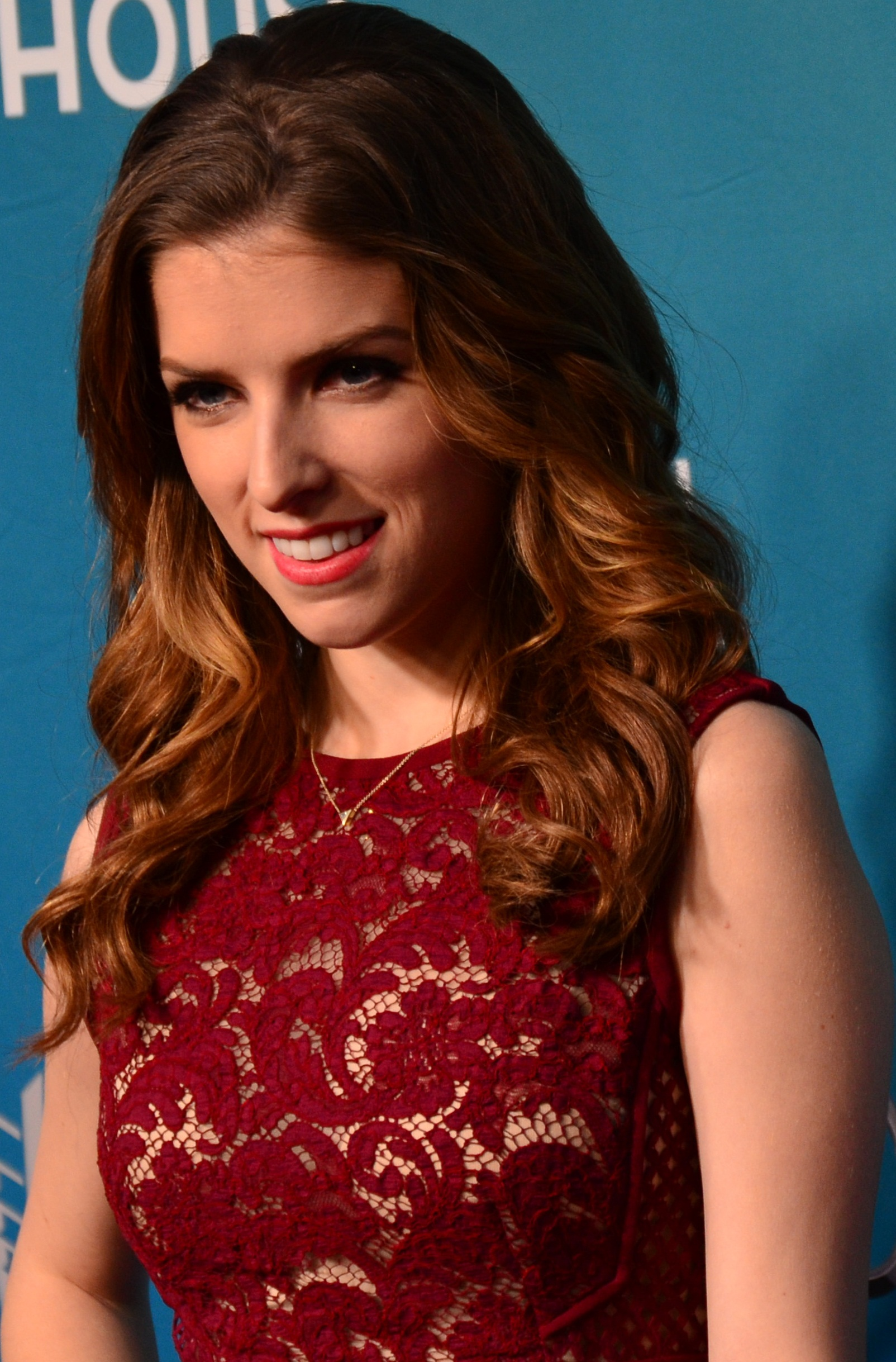 Actress Anna Kendrick at the Geffen’s 12th Annual Fundraiser honoring Walt Disney Studios Chairman, Alan F. Horn, with the Distinction in Service Award and multi-talented entertainer Steve Martin with the Distinction in Theater Award.